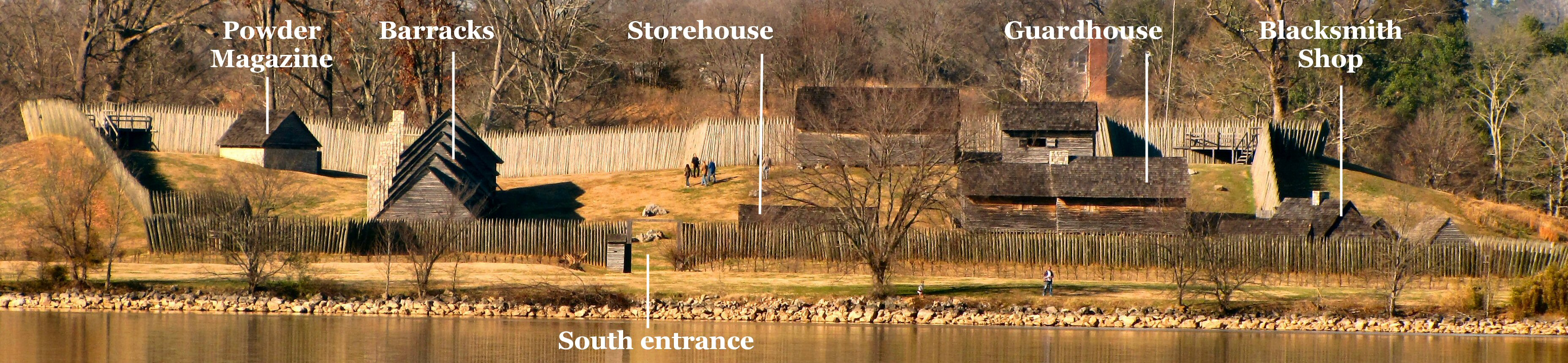 Panoramic of the reconstructed Fort Loudoun in Monroe County, Tennessee, United States, showing key interior structures.